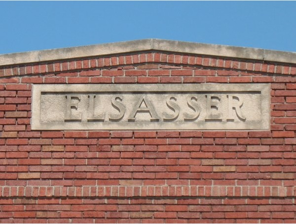 Elsasser Bakery Building Stone Panel, 1802 Vinton Street, Omaha, Nebraska